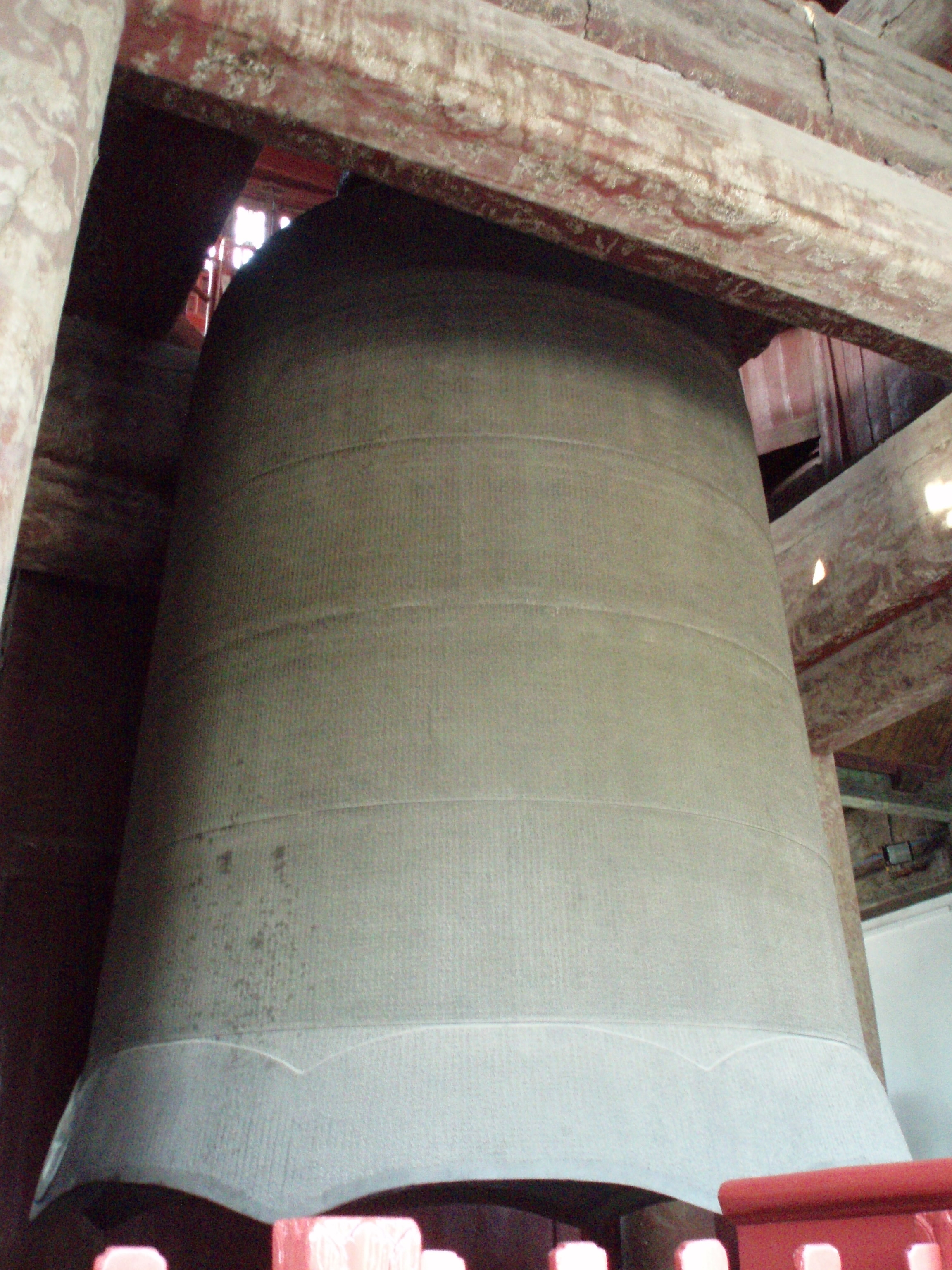 Yong'le Bell, made in 1420s. 中文（香港）: 明成祖年間所鑄的永樂大鐘。